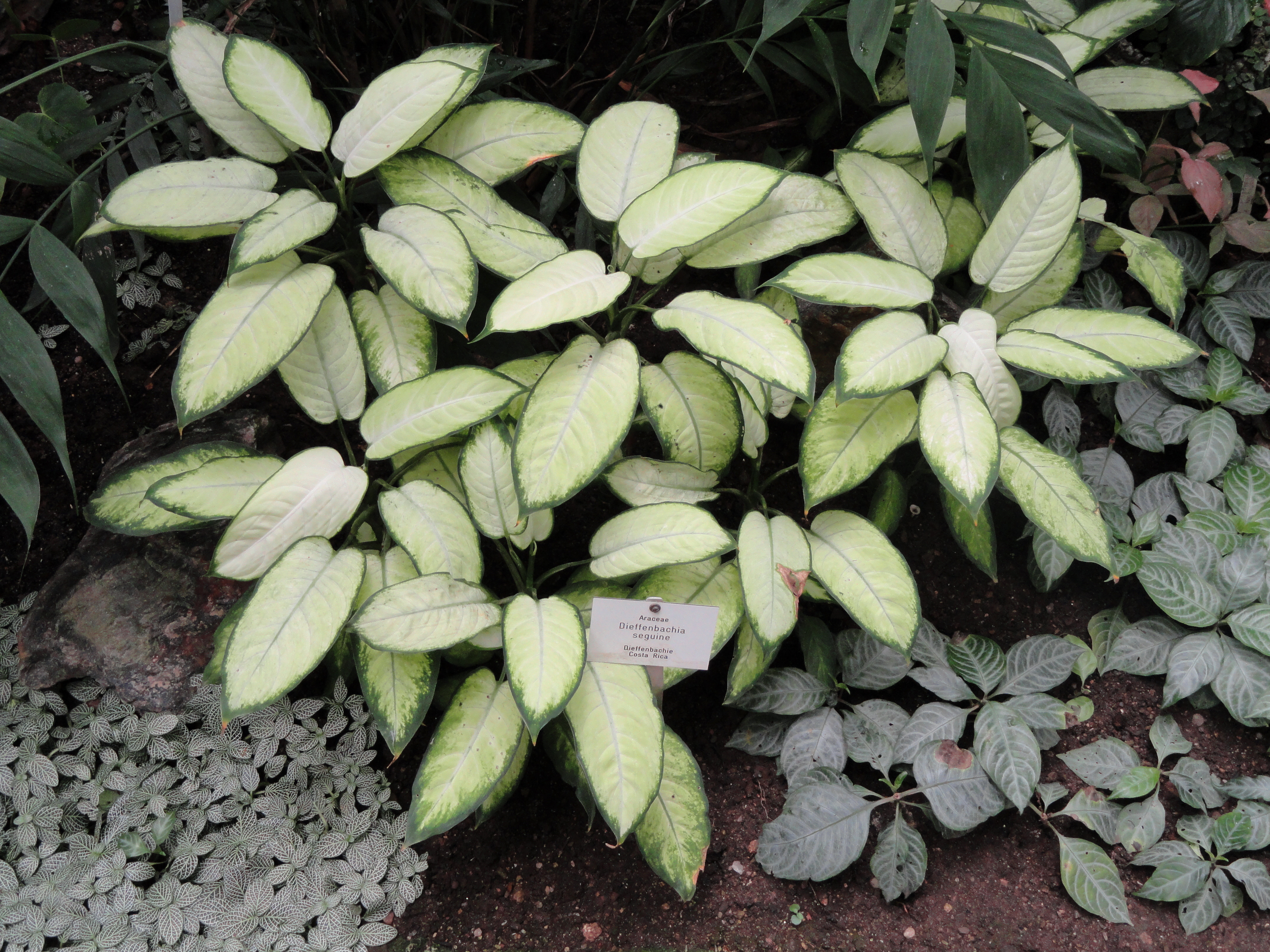 Dieffenbachia seguine specimen in the Botanischer Garten Freiburg, Freiburg im Breisgau, Baden-Württemberg, Germany.